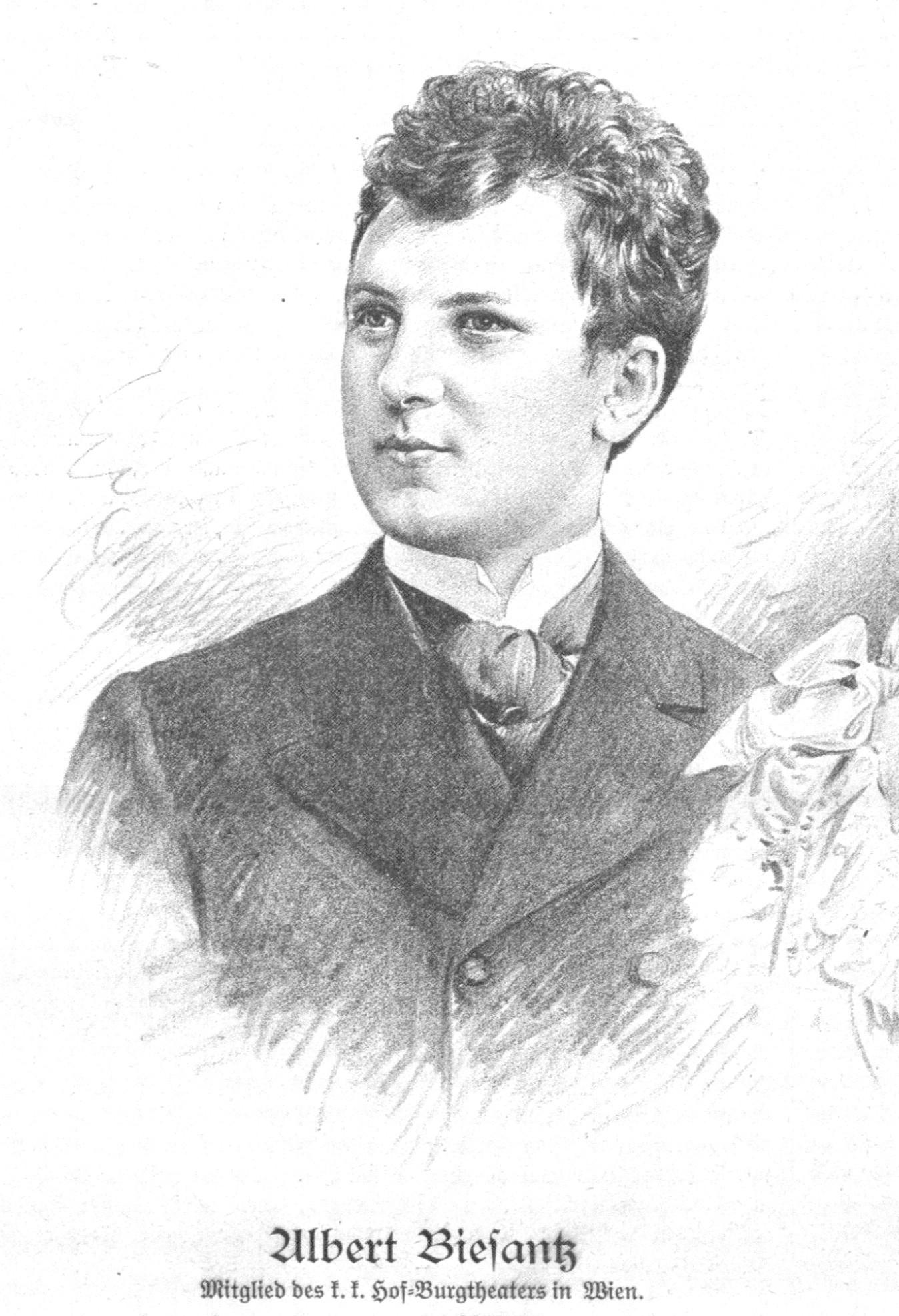 Portrait of Albert Biesantz (1873-??), Austrian actor.